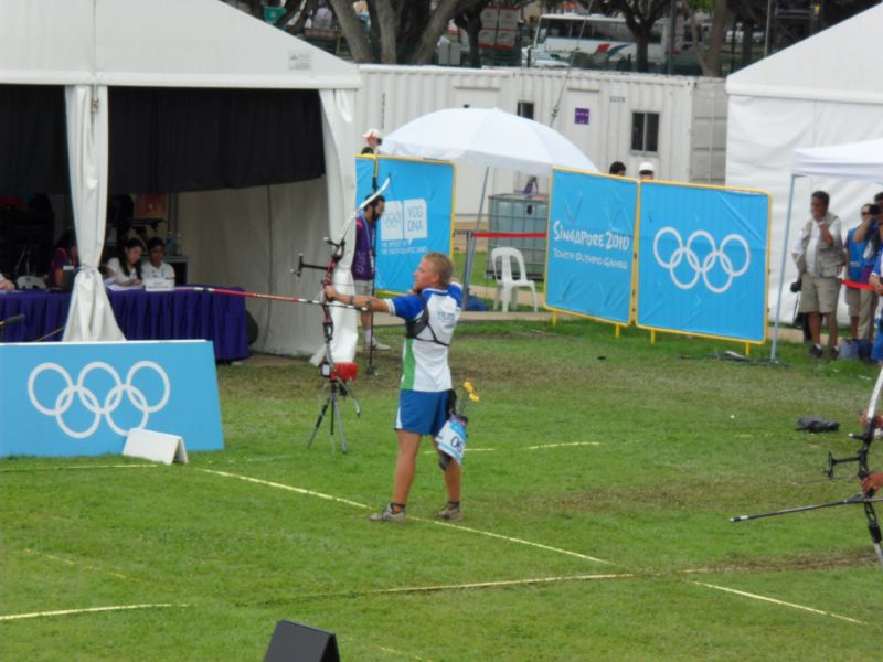 Slovenian archer Gregor Rajh at the Junior Men's Individual archery competition of the 2010 Summer Youth Olympics taking place at Kallang Field, Singapore.